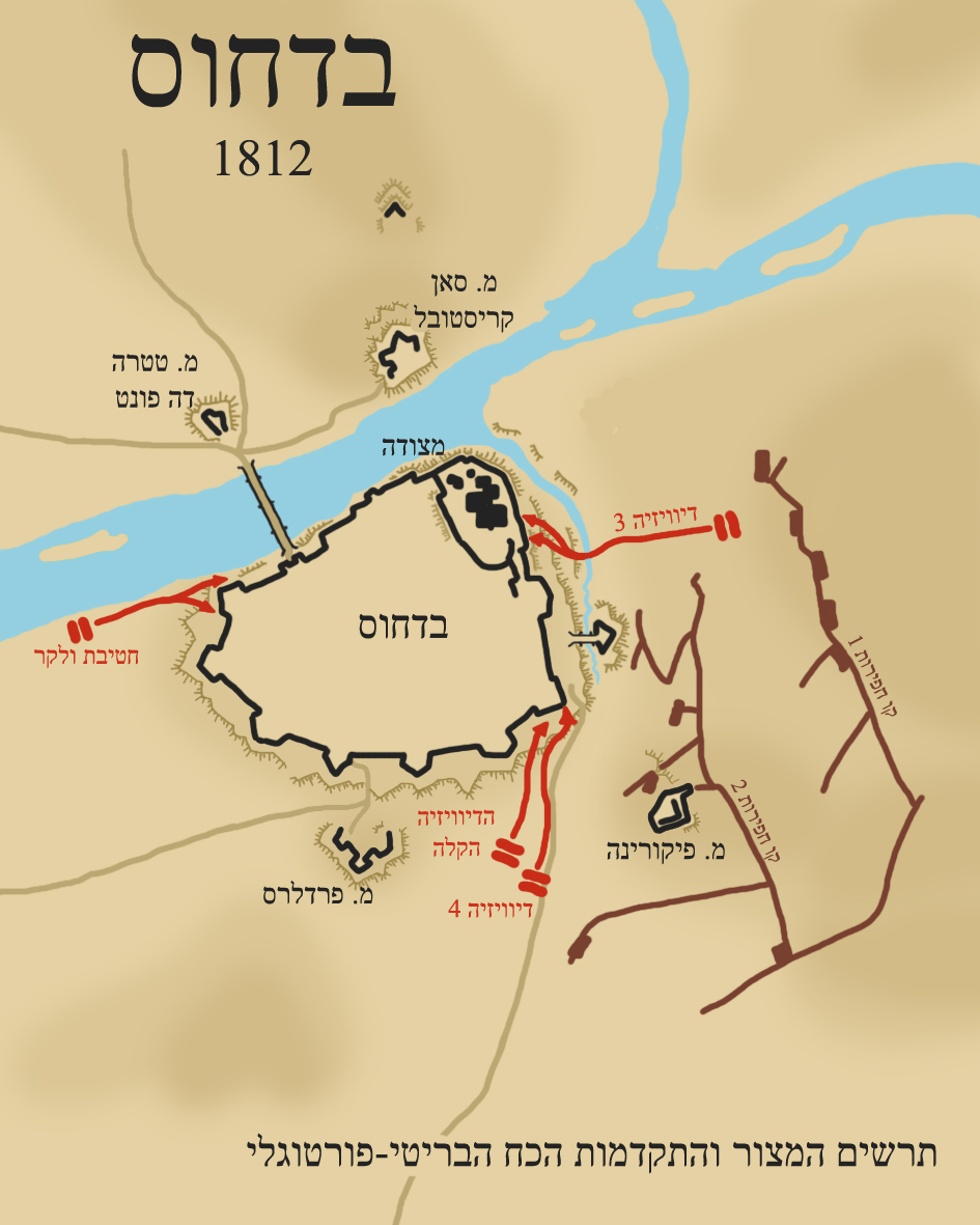 Map of the British-Portuguese siege of the French held, Spanish city of Badajoz. This is the Hebrew version (there is an English one as well)